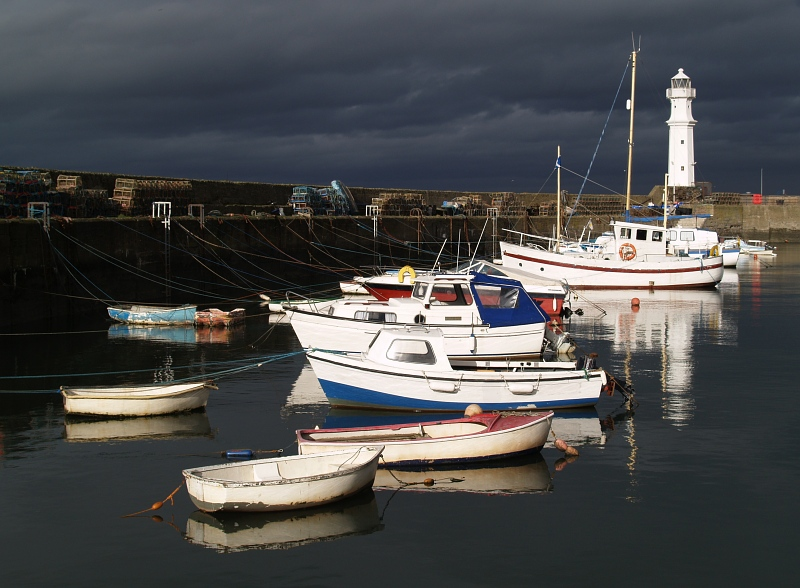 Newhaven Harbour, Edinburgh, Scotland